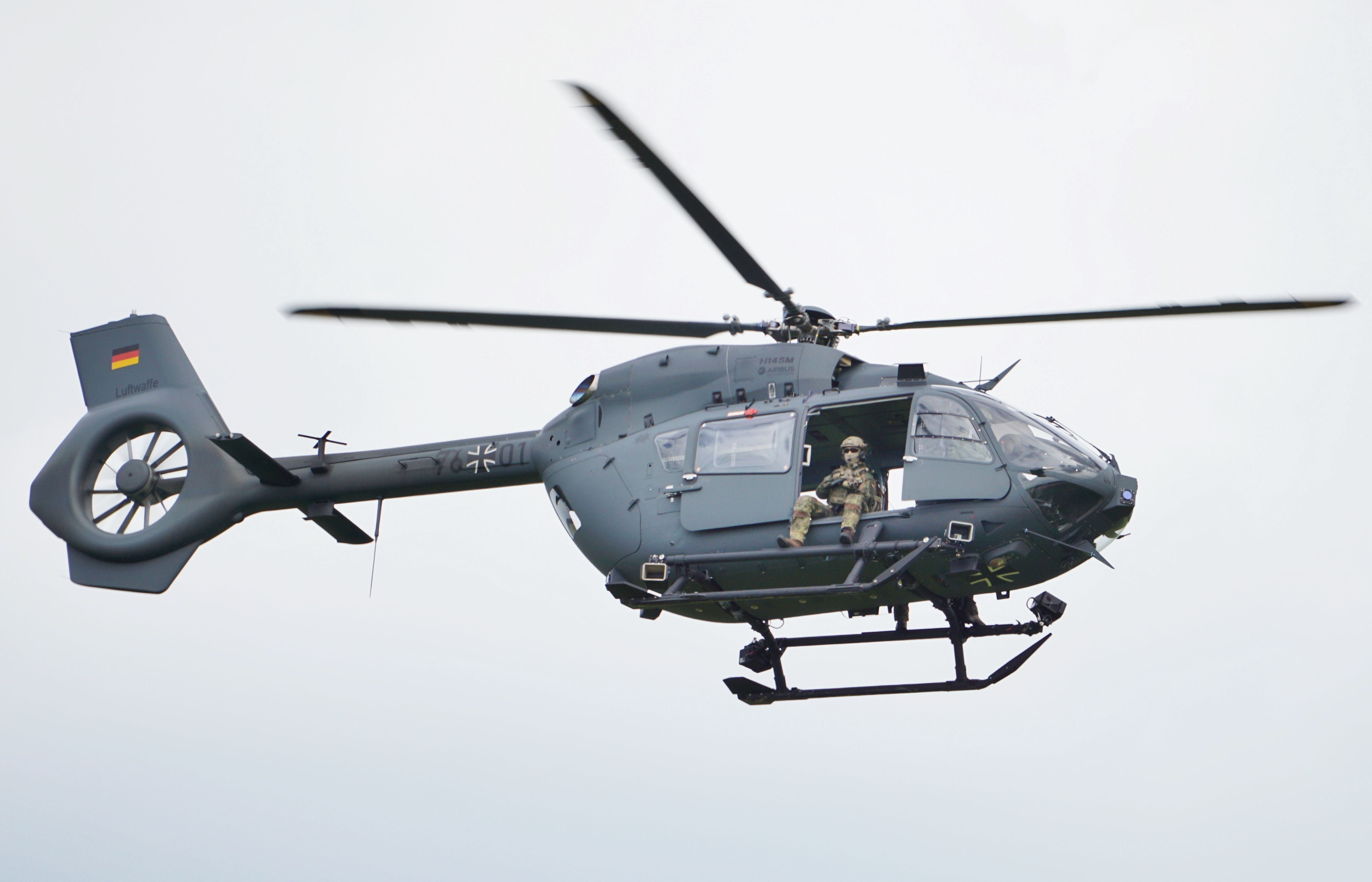 German Air Force Airbus H145M